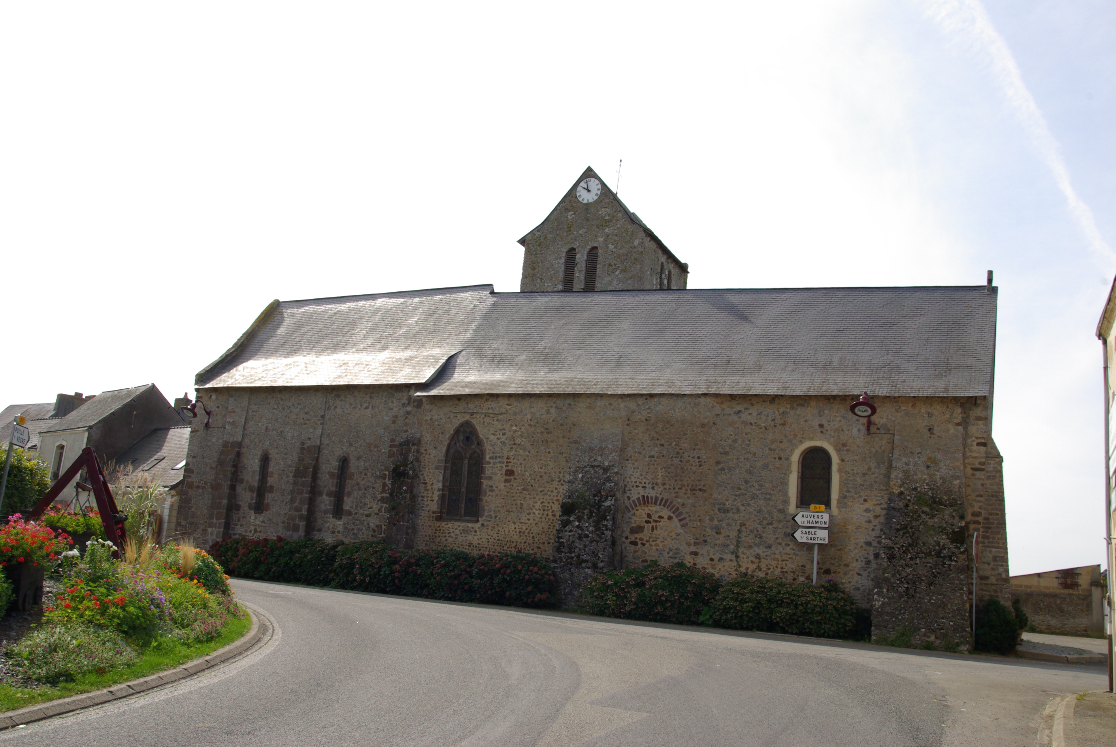 Church Epineux-the-Seguin